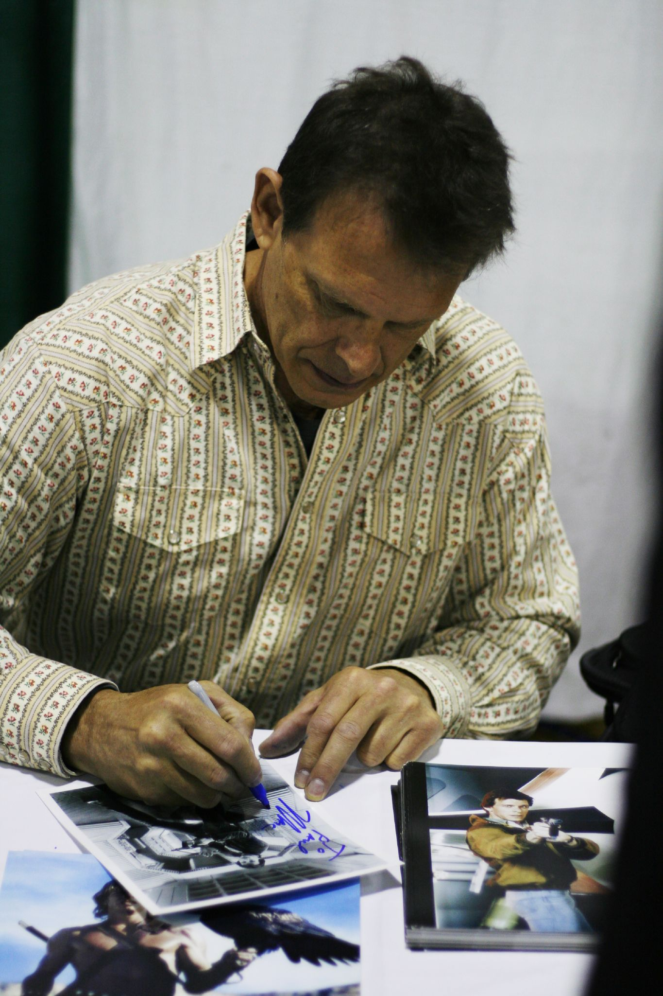 Marc Singer from The Beastmaster at the 2007 Pittsburgh Comicon.